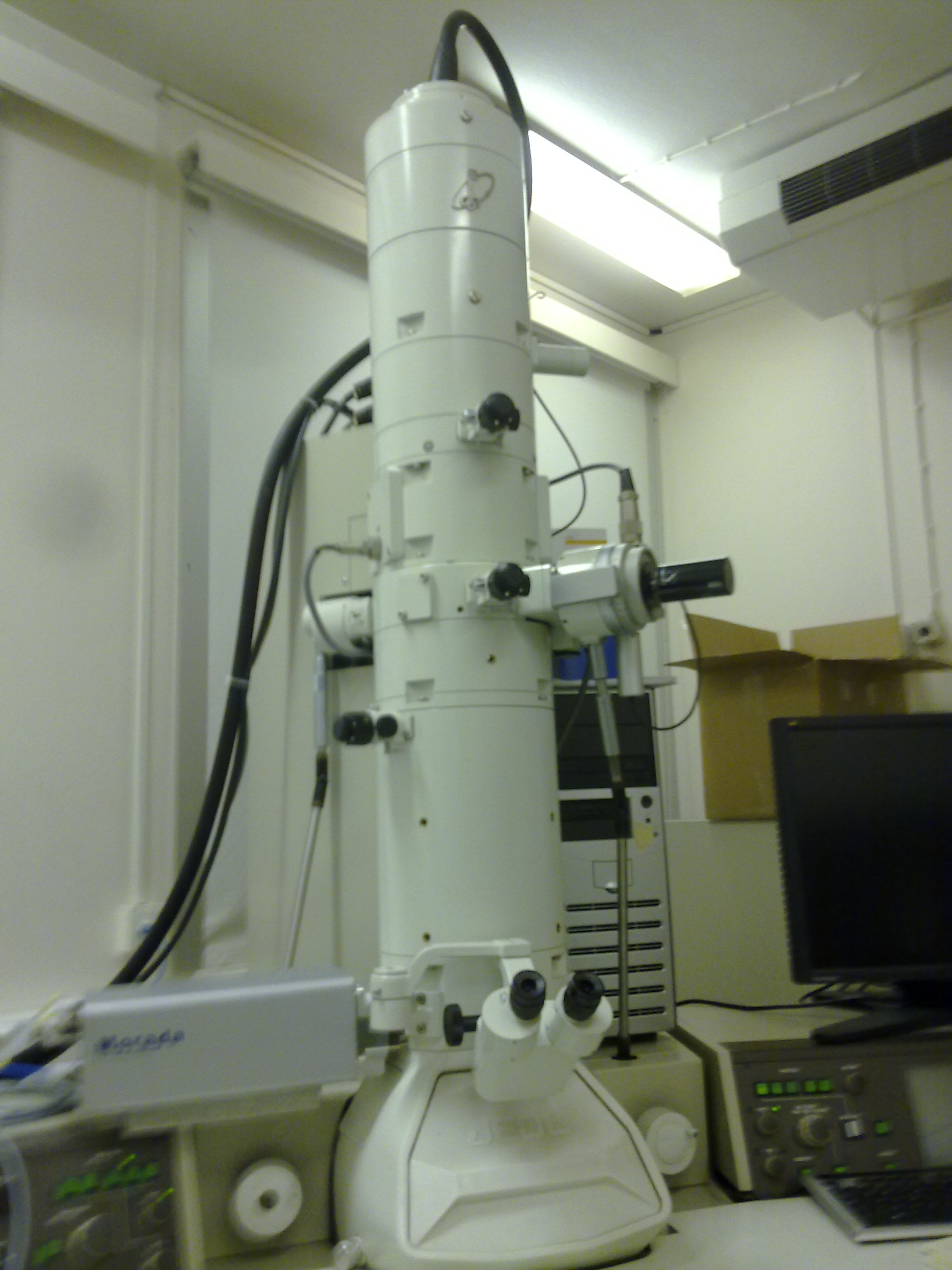 JEOL transmission electron microscope, possibly a JEOL JEM2100, in laboratorios of Sachtleben Picments (Kemira Picments) titanium dioxide-factory in Kaanaa, Pori, Finland.